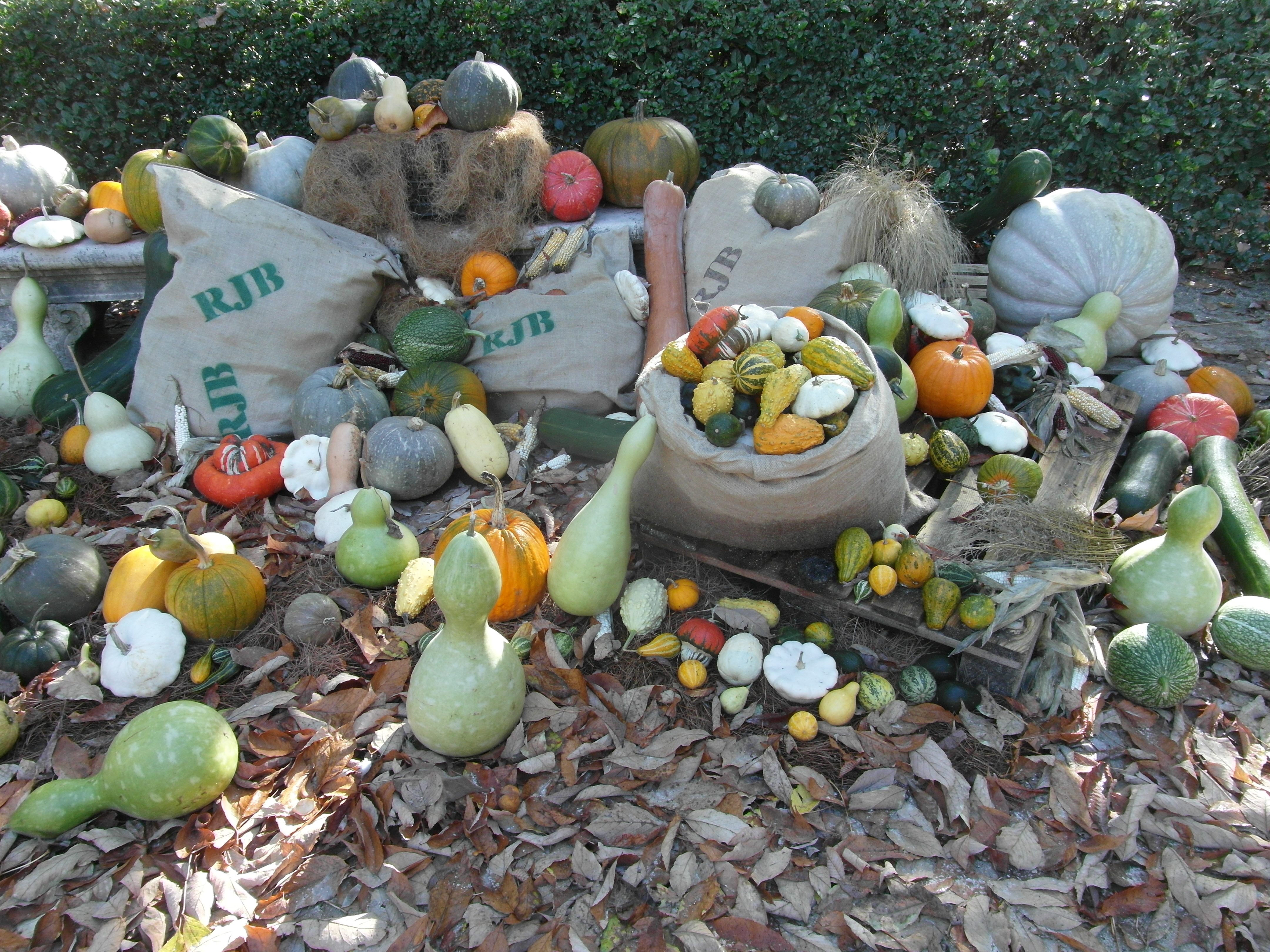 A display of cucurbits in the Madrid Botanical Garden, with the label "Variedades de calabaza", 2016